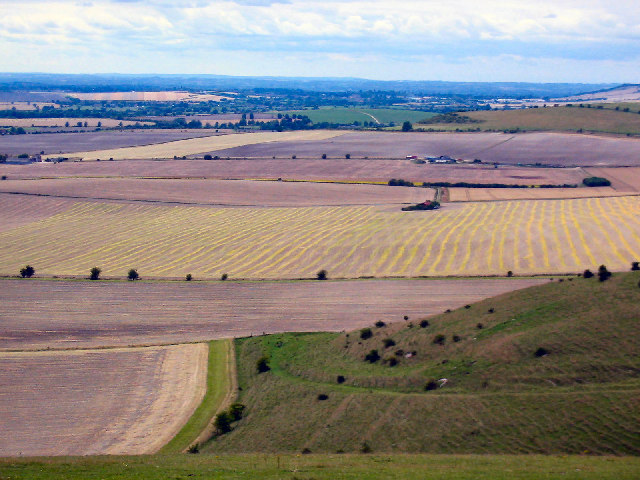 View West, Walkers Hill, Pewsey Downs. The view west, along crop fields from the top of Walkers Hill in the Pewsey Downs